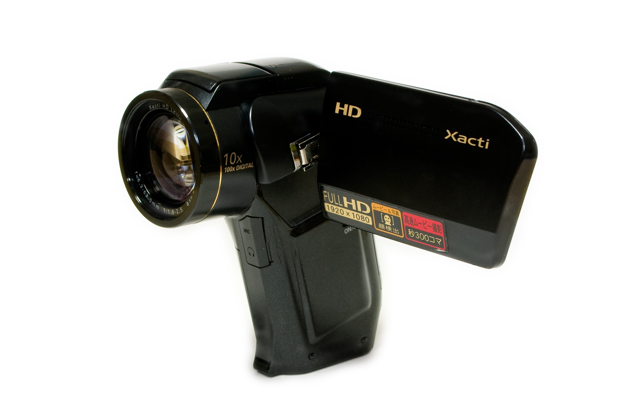 SANYO Xacti DMX-HD1010